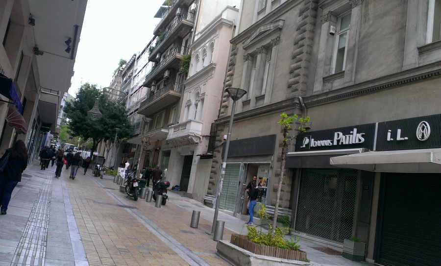 voukourestioy